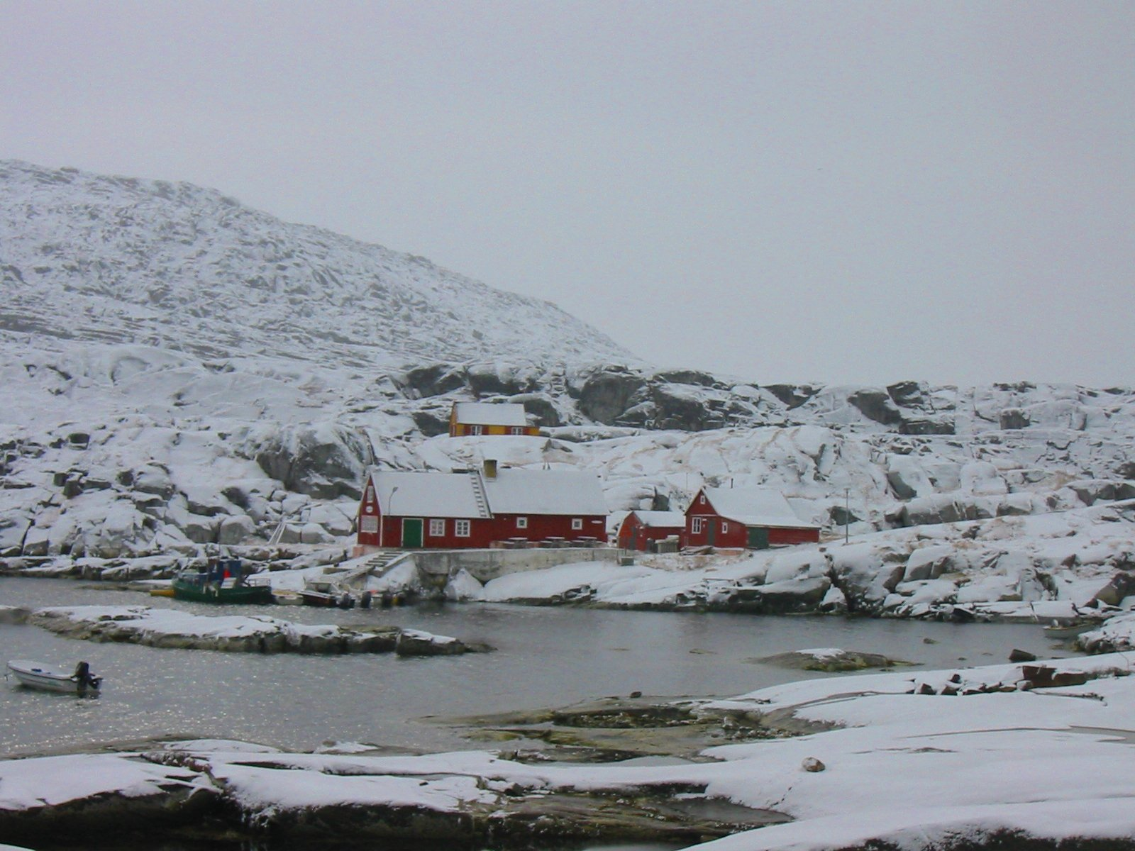 Oqaatsut, Greenland H8 restaurant, Rodebay, Greenland. Town's population 40 (+100 huskies), nearest population centre 20km (Ilulissat, pop 4000). Quite a place to decide to open a restaurant! Known as H8 from US military's earlier place-name/postcode system for Greenland which was painted on the roof of the restaurant for passing aircraft.